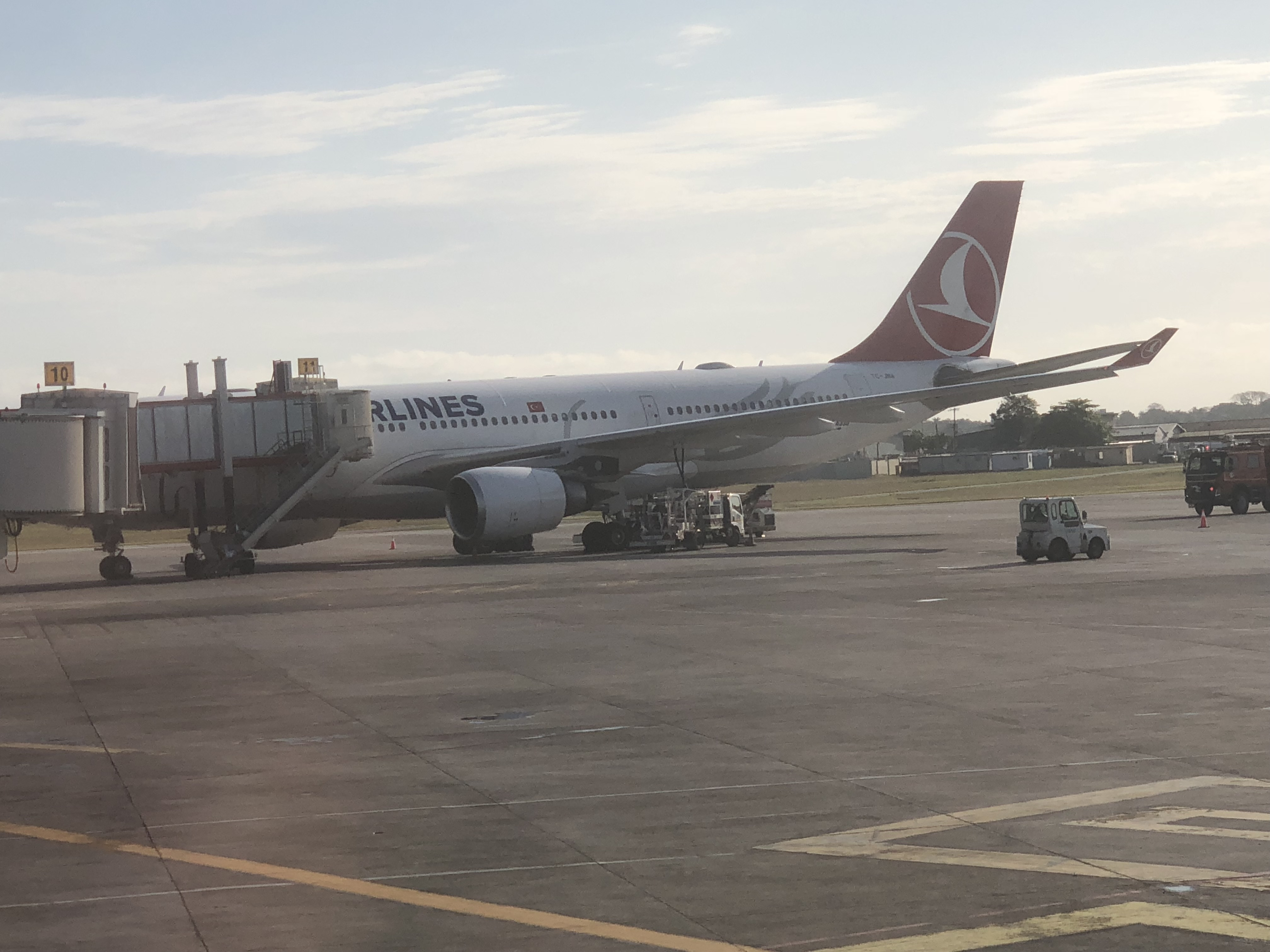 Turkish Airlines A330 at Gate B-11, Jose Marti Airport in Cuba.